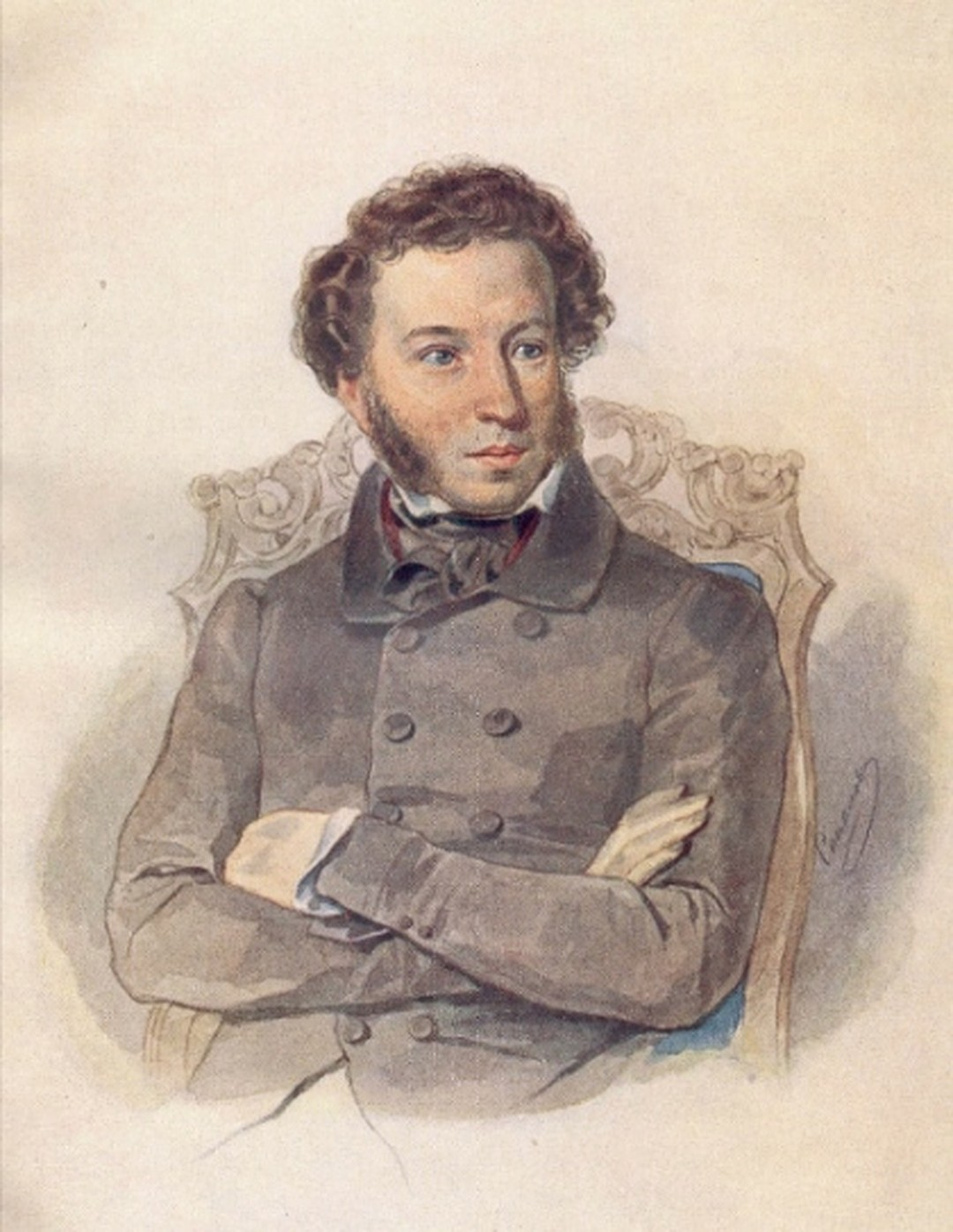 Russian poet and writer Alexander Pushkin (1799-1837)